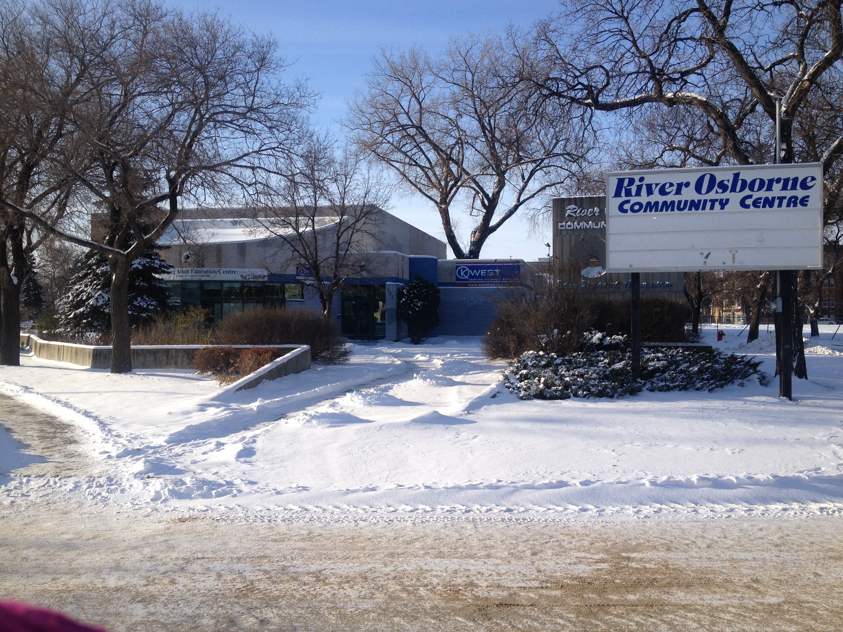 River Osborne Off Campus Site is and Adult Learning Centre and satellite program of the Winnipeg Adult Education Centre.